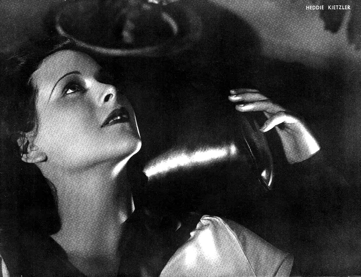 Publicity photo of Hedy Lamarr for Argentinean Magazine. (Printed in USA)